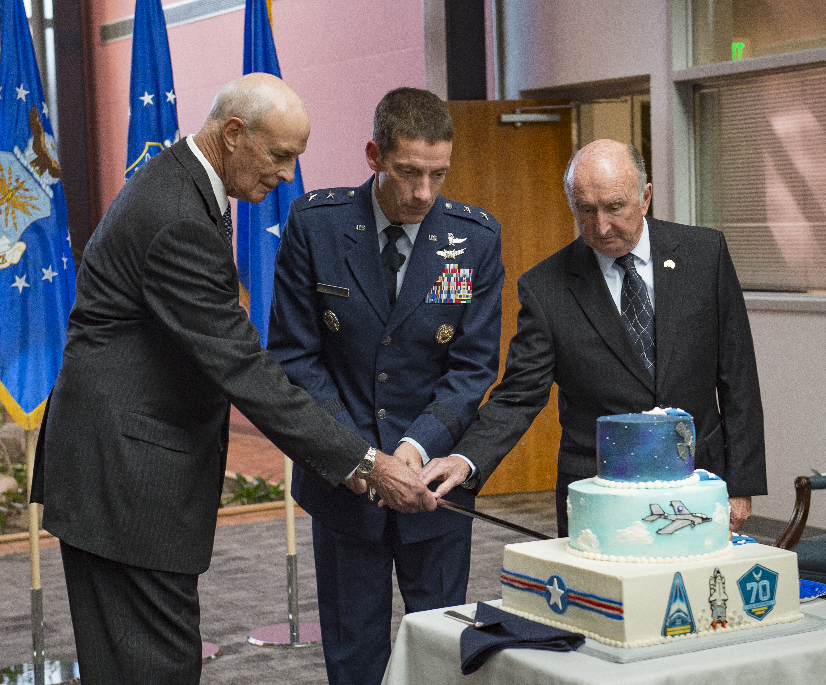 From left, U.S. Air Force Gen. (Ret) Howell Estes, Maj. Gen. Robert Skinner, and CMSgt (Ret) Charles Zimkas cut a birthday cake with an Air Force sword at Peterson Air Force Base, Colo., Sep. 19, 2017. The event celebrated the Air Force's 70th birthday and Air Force Space Command's 35th birthday. Gen. Estes served as the ninth commander of Air Force Space Command from 1996-1998. Maj. Gen. Skinner is deputy commander of Air Force Space Command. CMSgt Zimkas served as the first senior enlisted advisor at AFSPC when it was activated in 1982. (U.S. Air Force photo/Dave Grim)